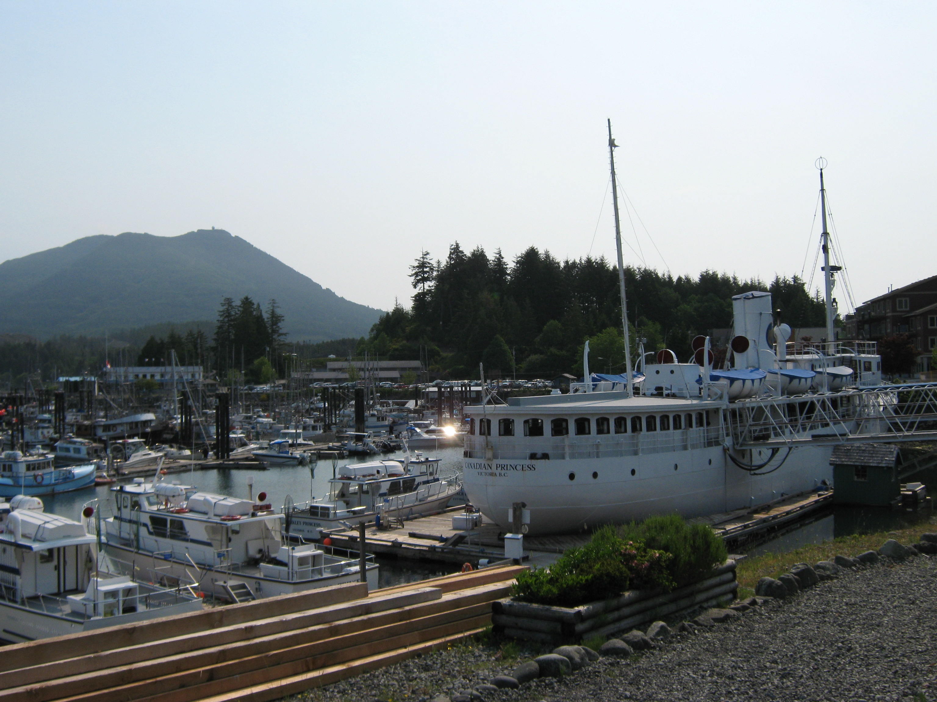 Inner Harbour - Ucluelet CANADIAN PRINCESS IMO Number: 5390876 Callsign: CGFQ Length: 65,23 m Beam: 11,01 m